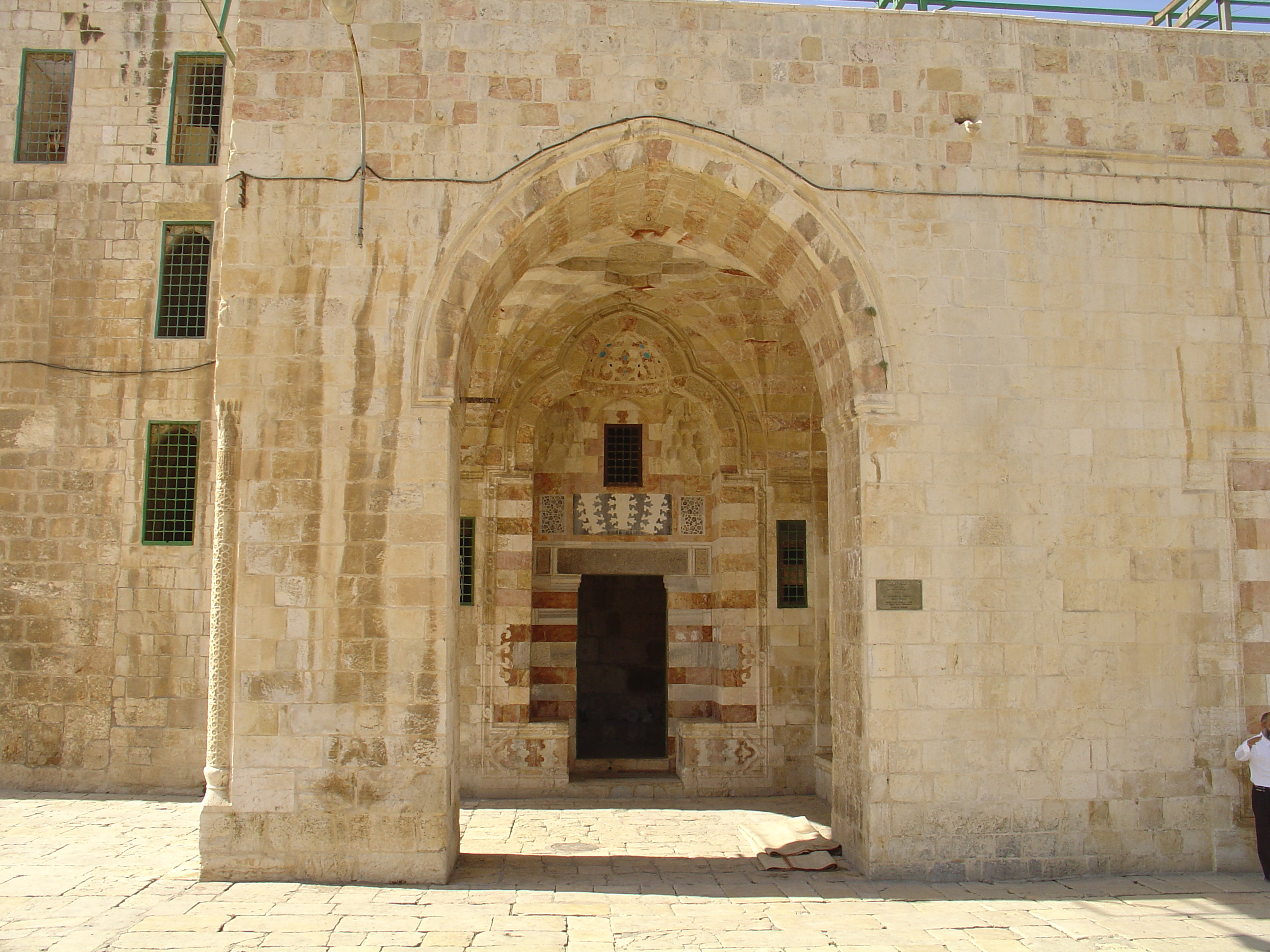 Al-Aqsa Mosque